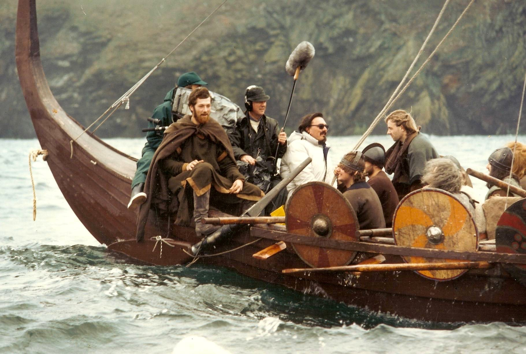 Director Leo Eaton and his camera crew filming aboard a recreated Viking longship off Peel in the Isle of Man in a scene from the VIKINGS episode of Timeline